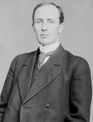 Arthur Meighen, 9th Prime Minister of Canada